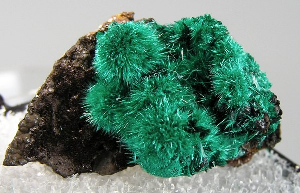 Brochantite Locality: Copiapó Province, Atacama Region, Chile (Locality at ) Size: 2.9 x 1.6 x 1.1 cm. A superb thumbnail of brochantite (Copper Sulfate Hydroxide) from Chile - puffballs of intense green, shimmering acicular crystals with just the right amount of contrasting matrix to set them off.